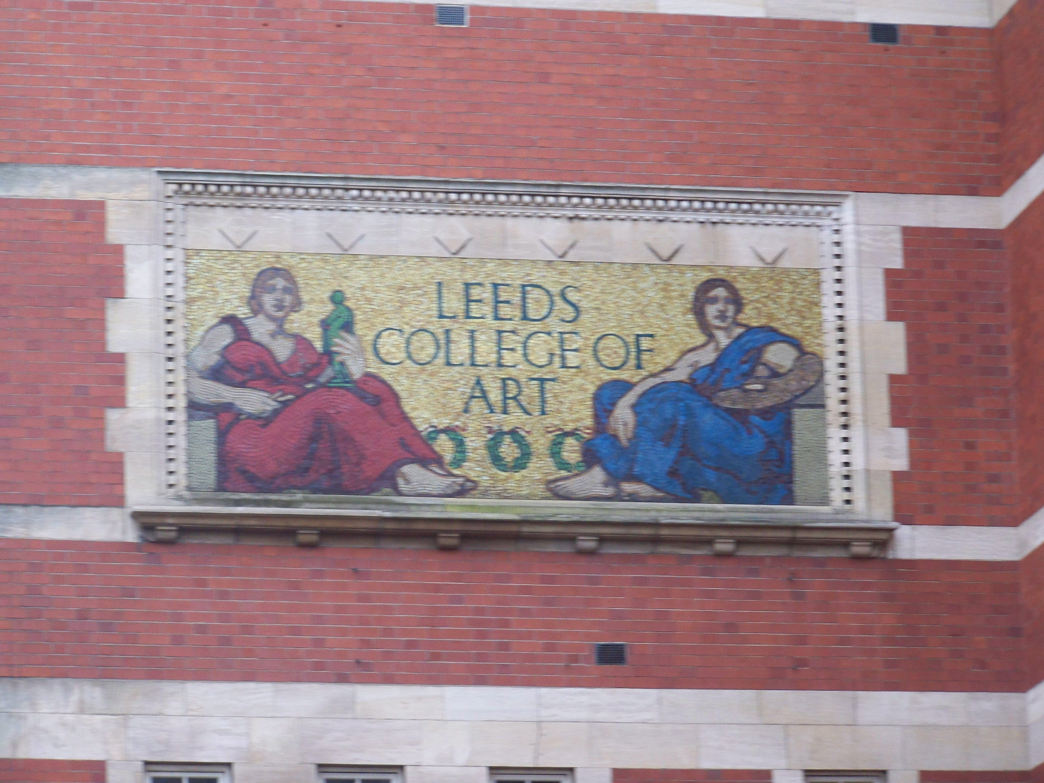 A mural on the Leeds College of Art. Taken on the afternoon of Saturday the 23rd of January 2010.